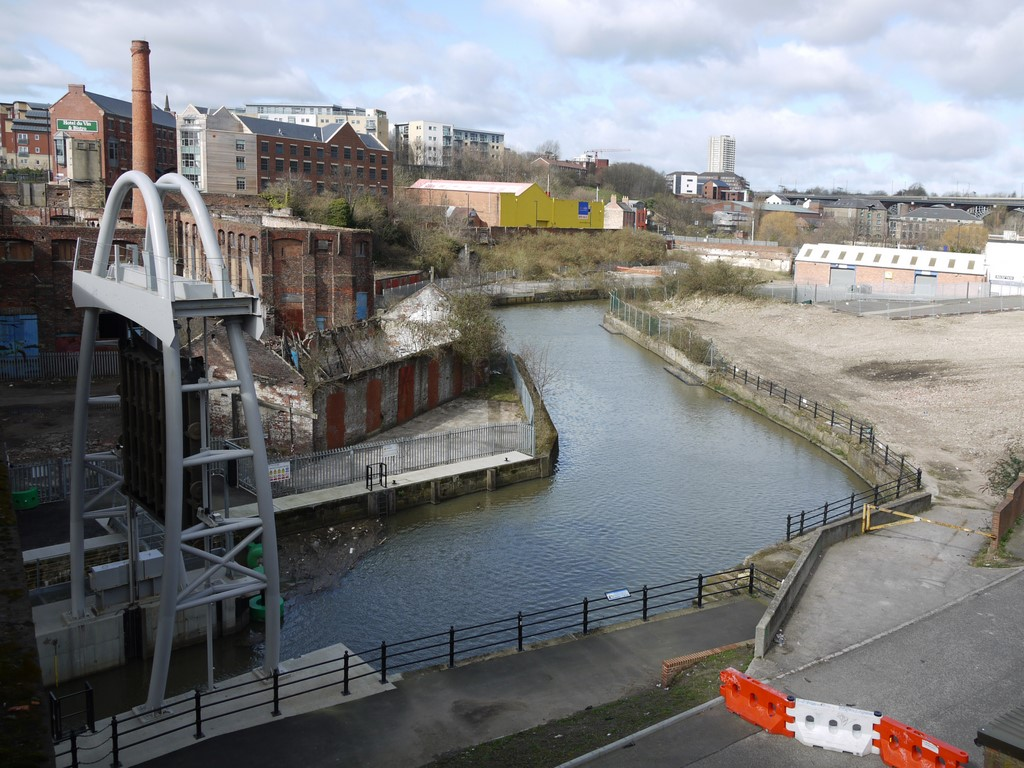 Ouseburn above the Barrage. Taken from the Glasshouse Bridge towards the former Maynard's Toffee Factory with its landmark chimney. Compare the pre-barrage photo from the same location taken in 2006 197609